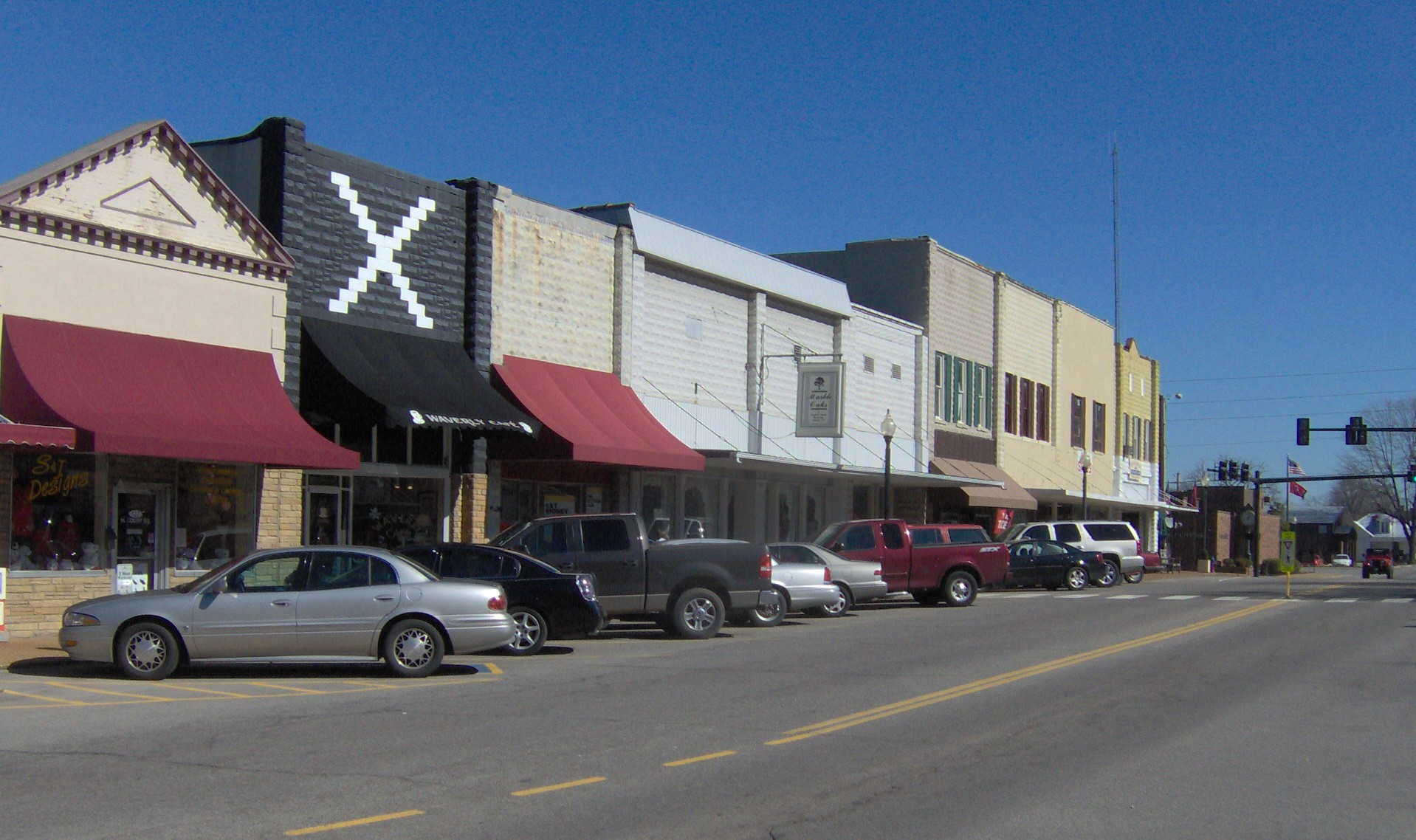 North Court Square in Waverly, Tennessee, in the southeastern United States.